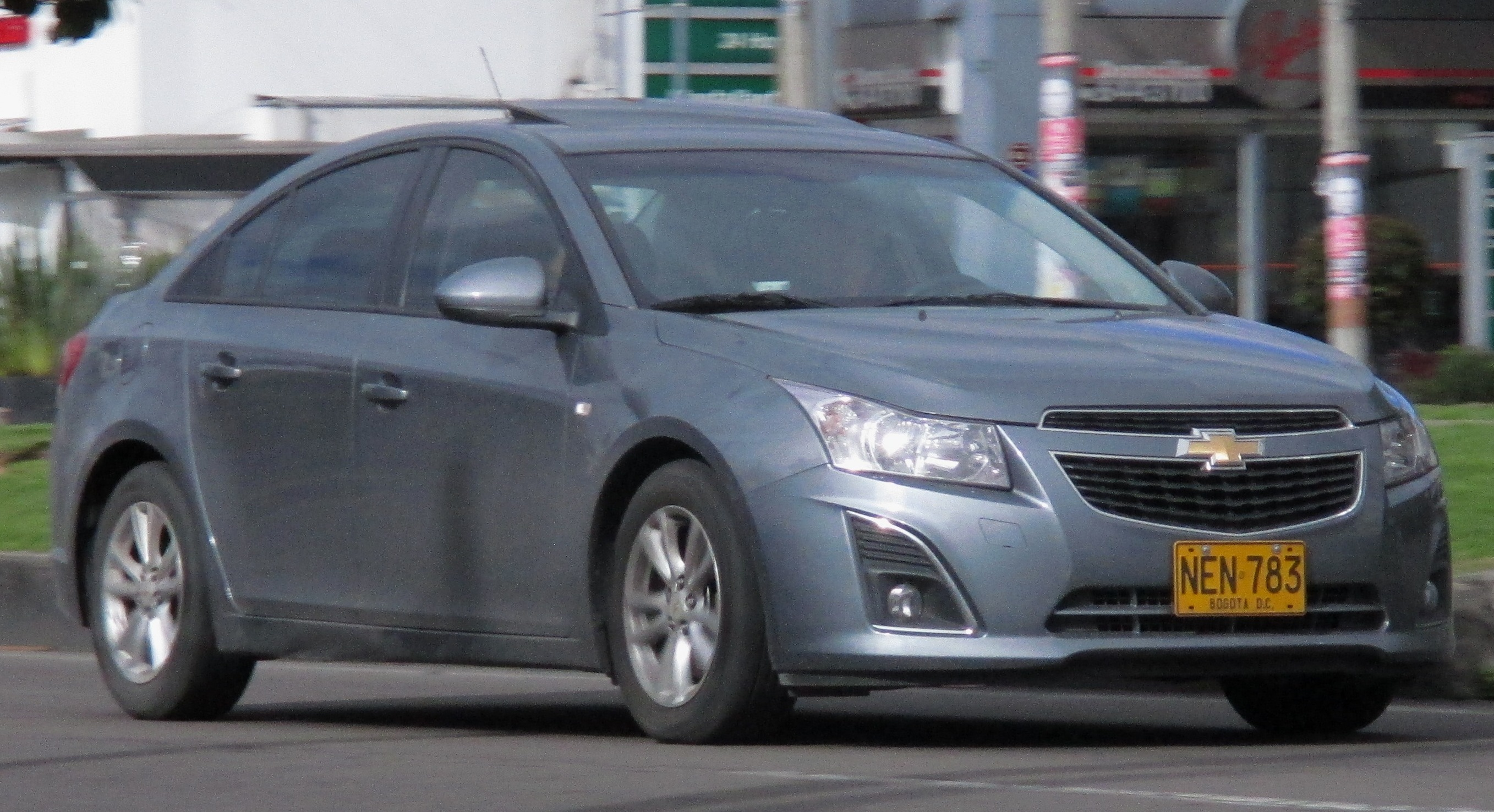 Bogotá